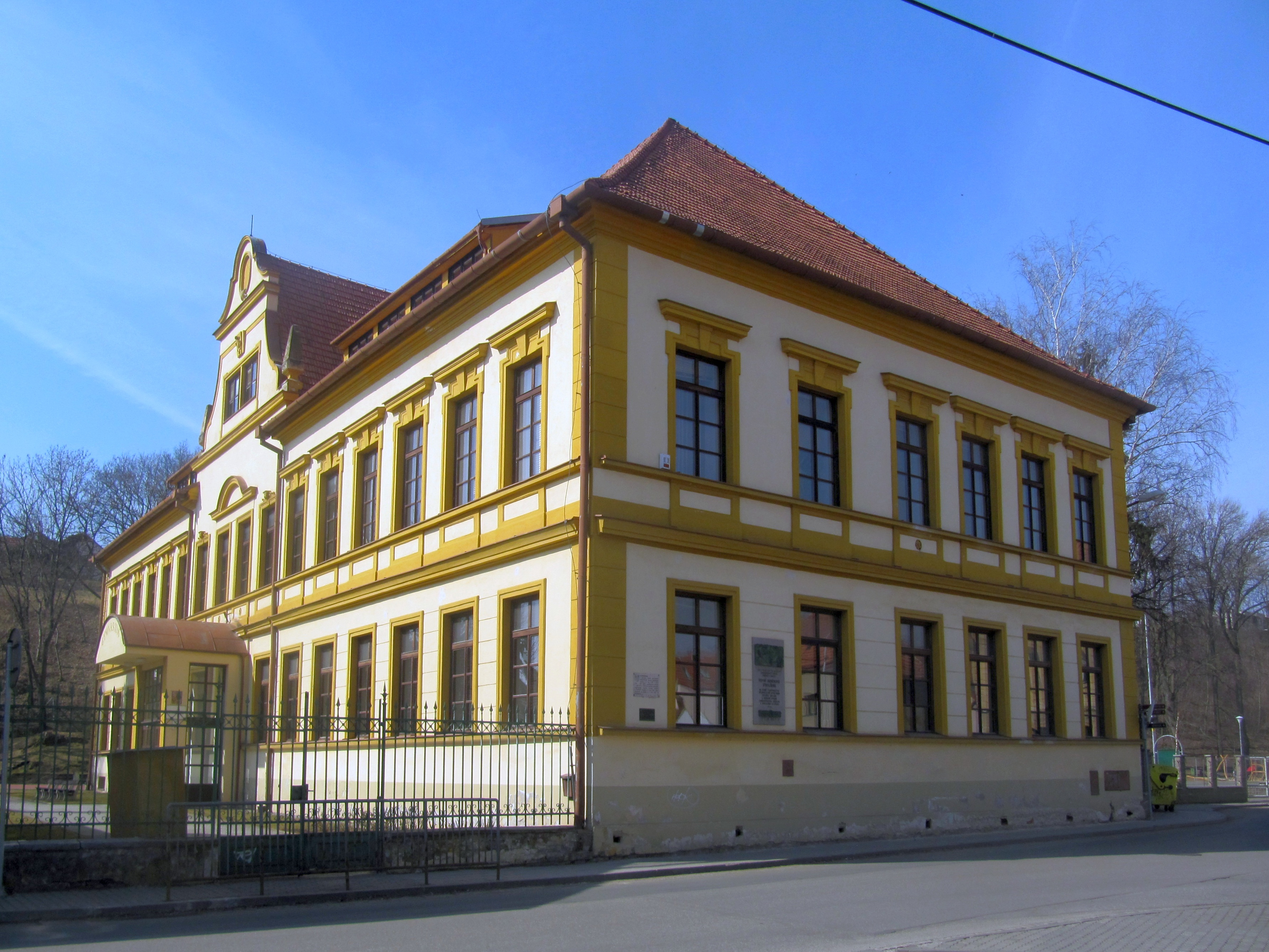 Šlapanice in Brno-Country District, Czech Republic. Grammar school.